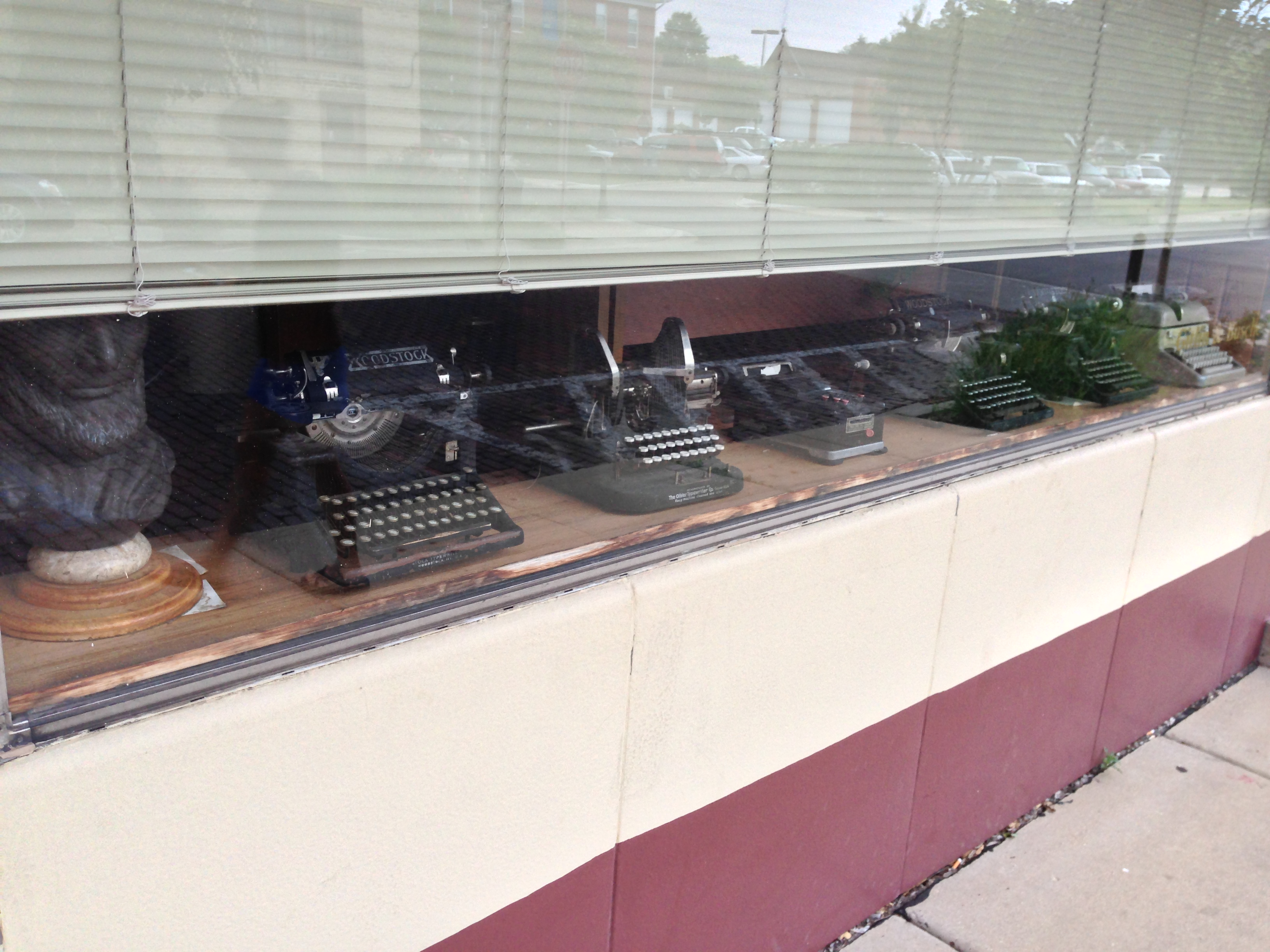 Typewriters in a Woodstock Il window. Photographed in 2013